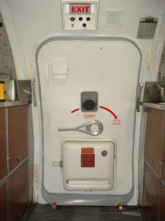 Emergency evacuation slide on a door, 2006 Dr. Wessmann